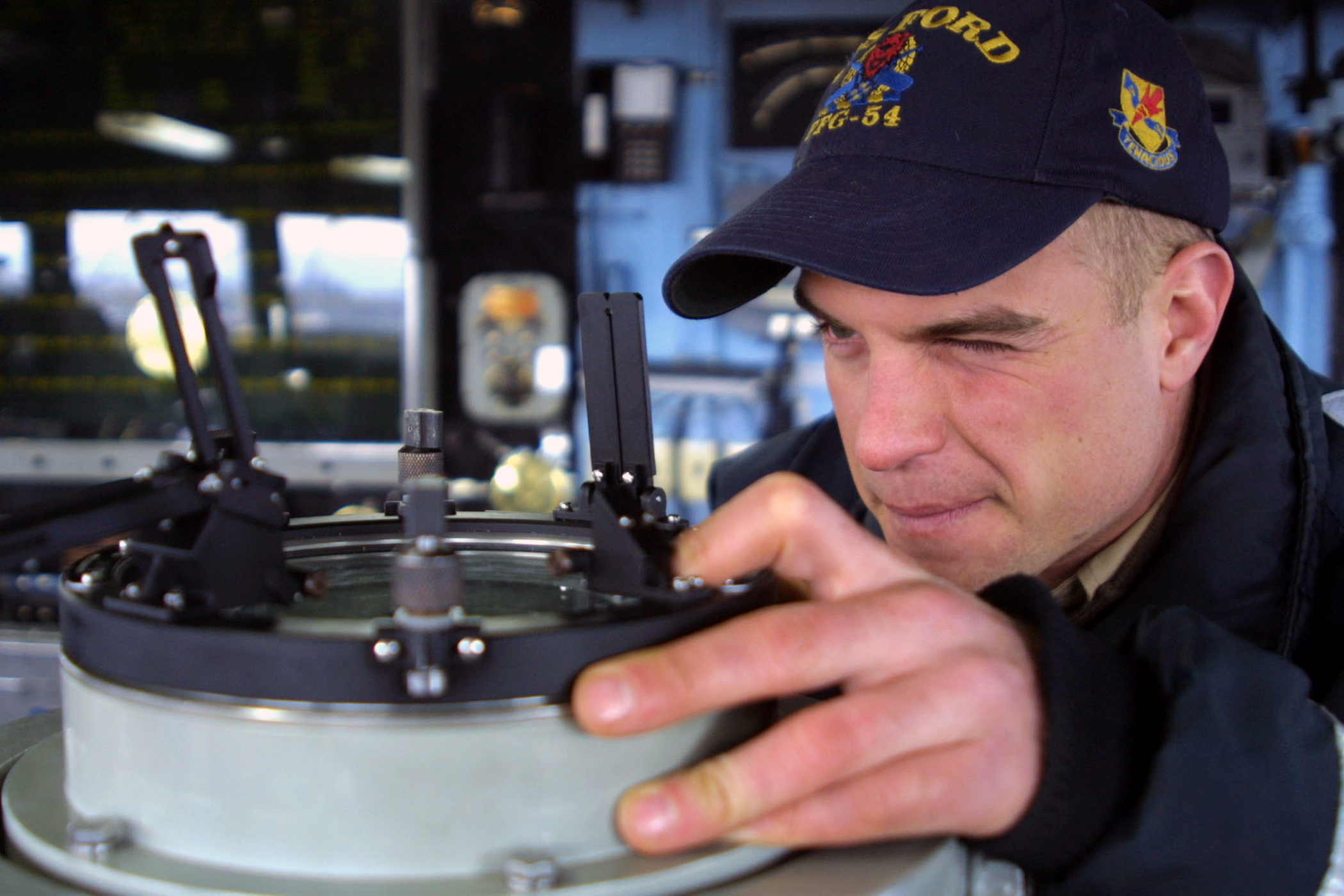 Everett, Wash. (Feb. 6, 2004) – Lt. j.g. Elliott Taylor peers through the alidade on the bridge aboard the guided missile frigate USS Ford (FFG 54). The alidade aids ship handlers in aligning the vessel’s course correctly. Taylor was recently selected as Naval Station Everett’s 2003 Ship Handler of the Year. U.S. Navy photo by Journalist Seaman Travis Lee Clark. (RELEASED)